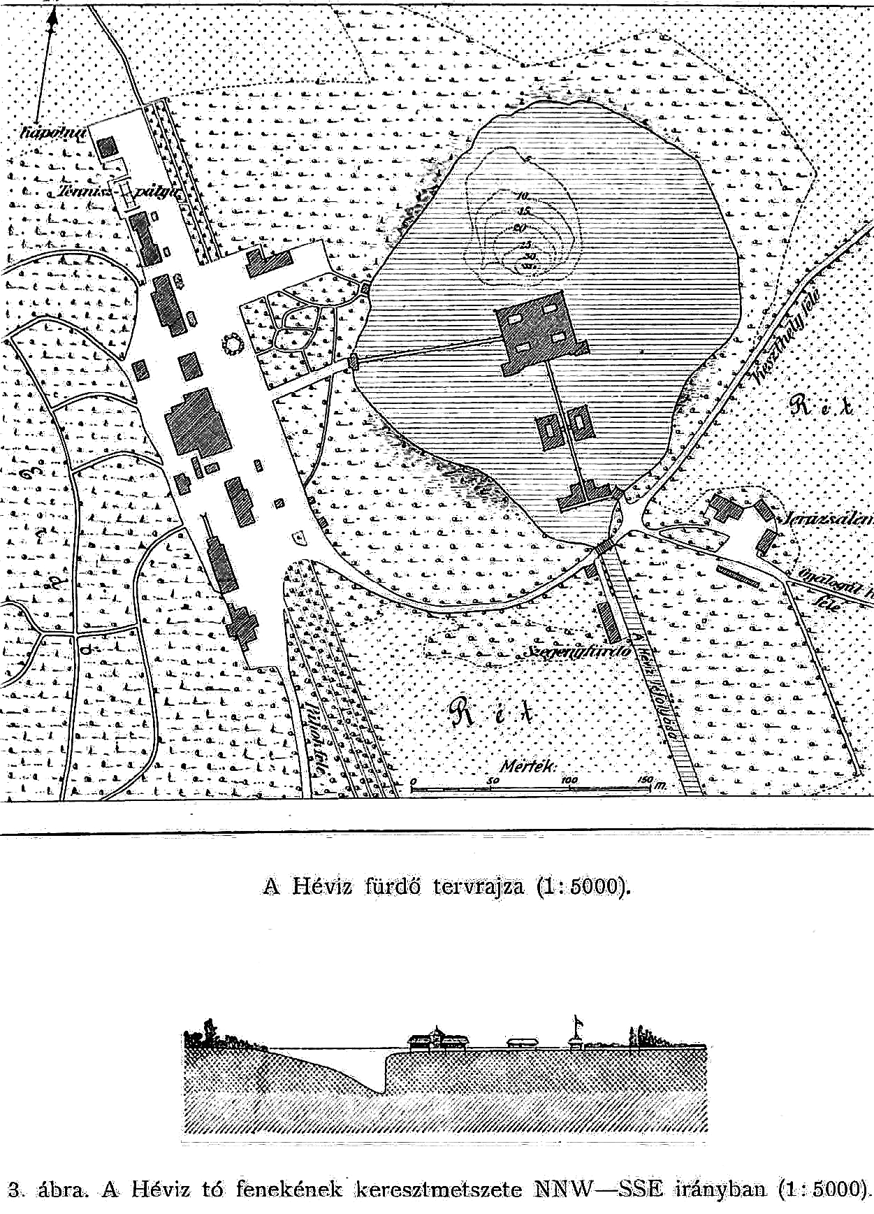 A Héviz fürdő tervrajza (1:5000) A Balaton tudományos tanulmányozásának eredményei Lovassy Sándor: A Balaton tudományos tanulmányozásának eredményei II. kötet - A Balaton tónak és partjainak biologiája. 2. rész: A Balaton flórája. 2. szakasz függeléke: A keszthelyi Hévíz tropikus tündérrózsái (Budapest, 1908) I. fejezet. A keszthelyi Hévíz .